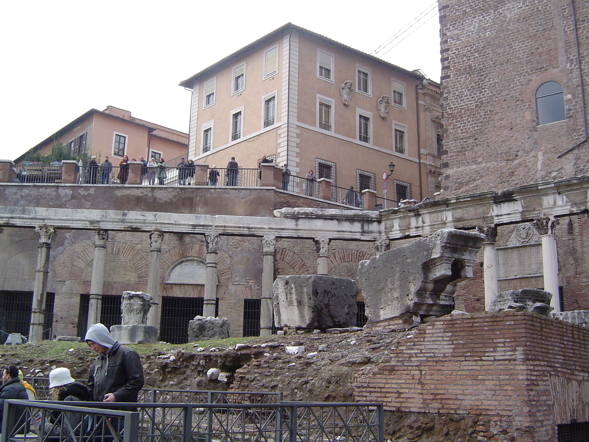 Porticus Deorum Consentium of the Forum Romanum